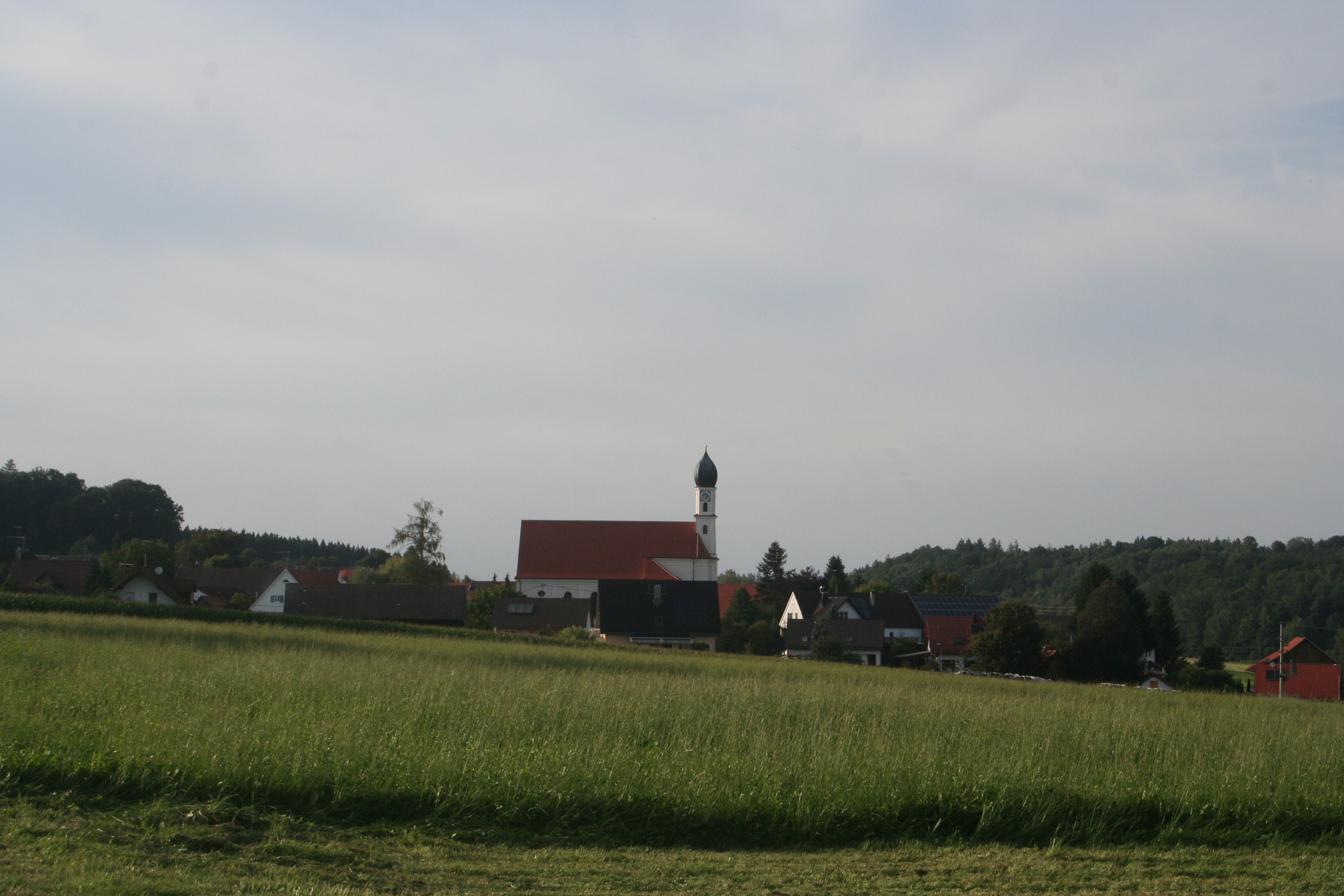 look at Attenhausen from south